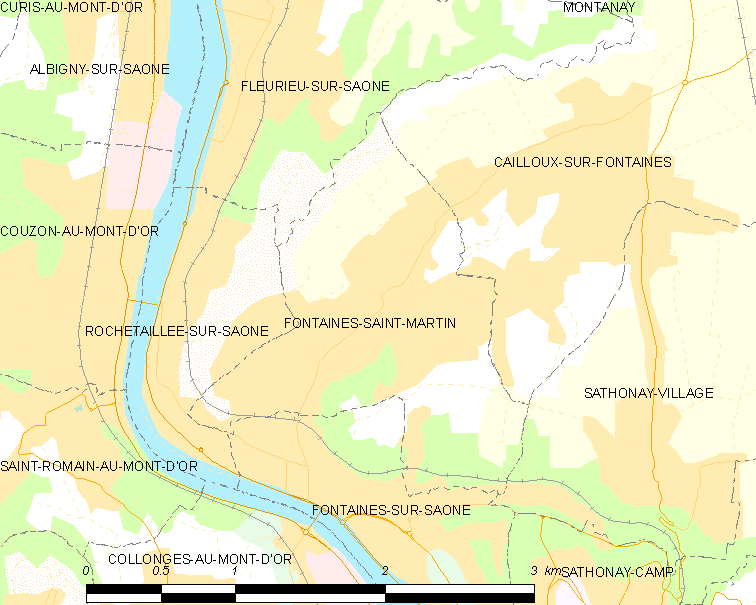 Map of French municipality